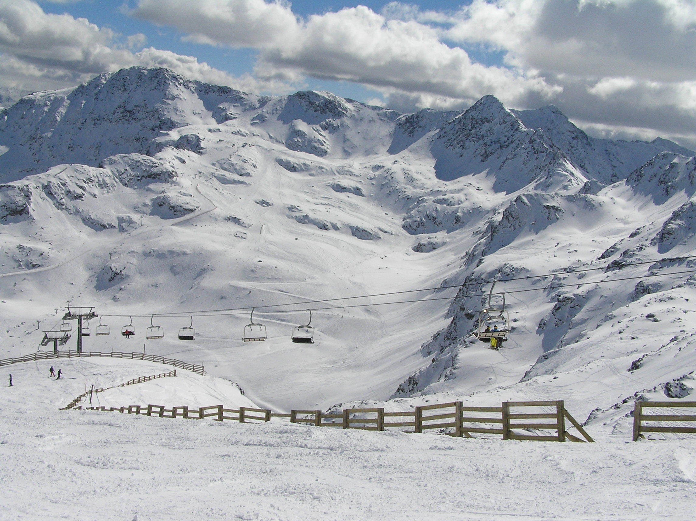 View from top of chairlift to Cota (2625m high) overlooking La Coma part of the Arcalís ski area in Andorra